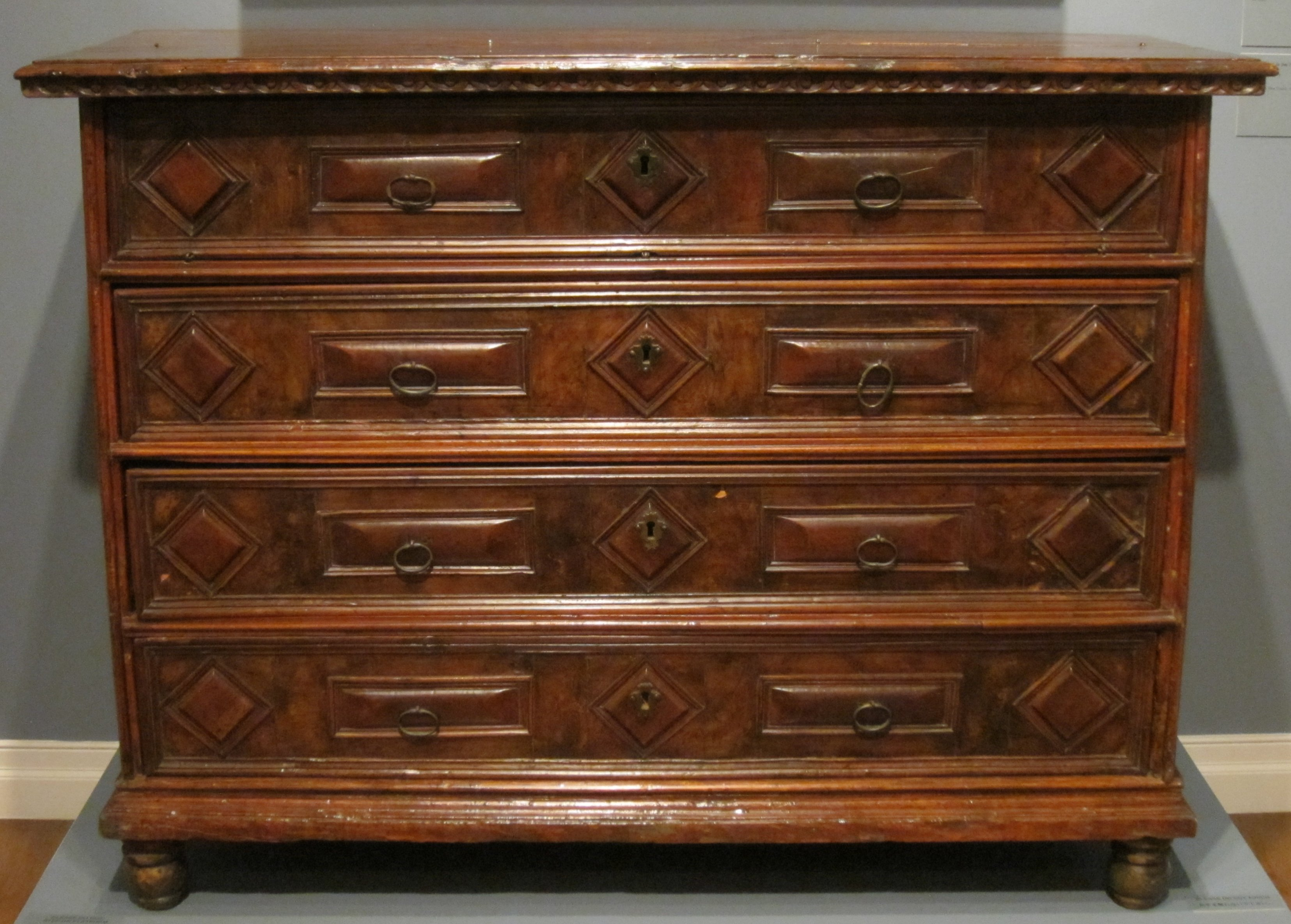 16th century walnut writing desk in the form of a chest of draws, Italian, Honolulu Academy of Arts